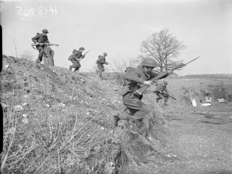 The British Army in the United Kingdom 1939-45 With bayonets fixed, men of 7th Battalion, Royal Welch Fusiliers charge down a bank on an assault course at Teddesley Hall, Penkridge in Staffordshire, 27 March 1942.